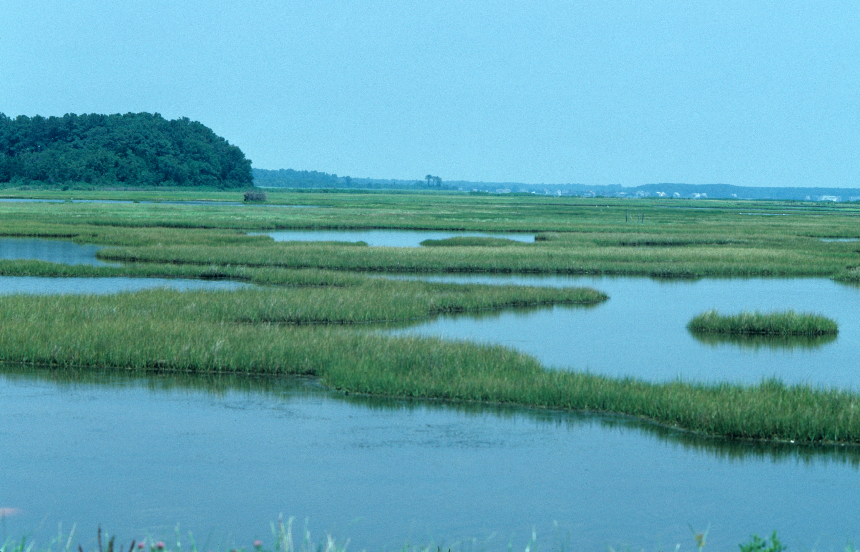 Salt marsh vista. Virginia, Delmarva Peninsula.